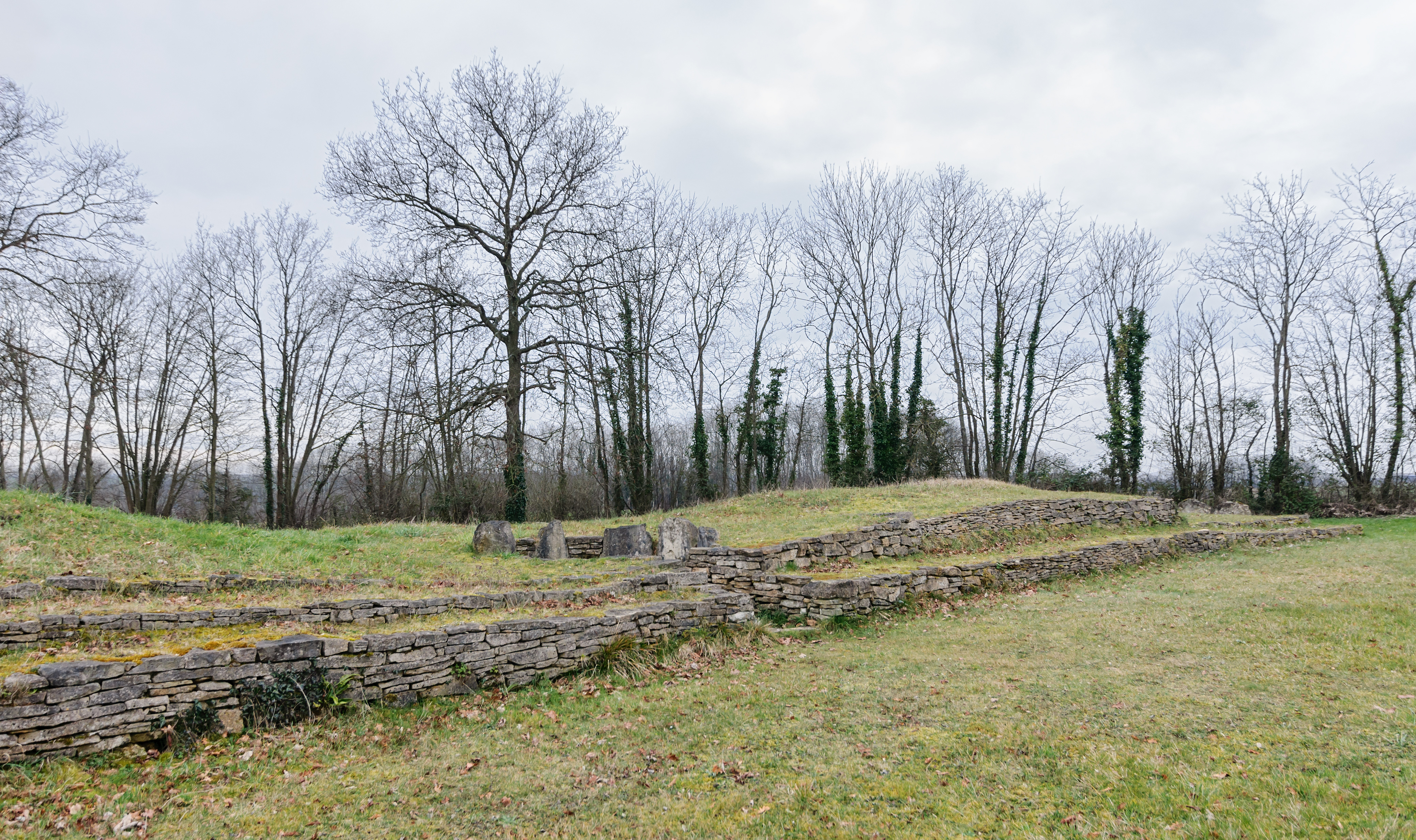 Long barrow in Colombiers-sur-Seulles, Calvados, Basse-Normandie, France